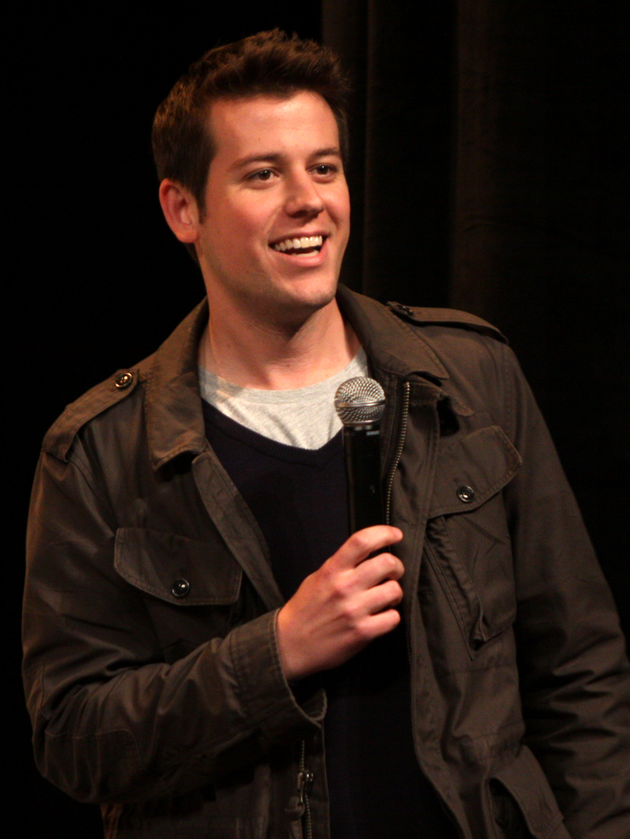 Ben Lyons speaking at Wondercon 2012 in Anaheim, California on March 17, 2012.